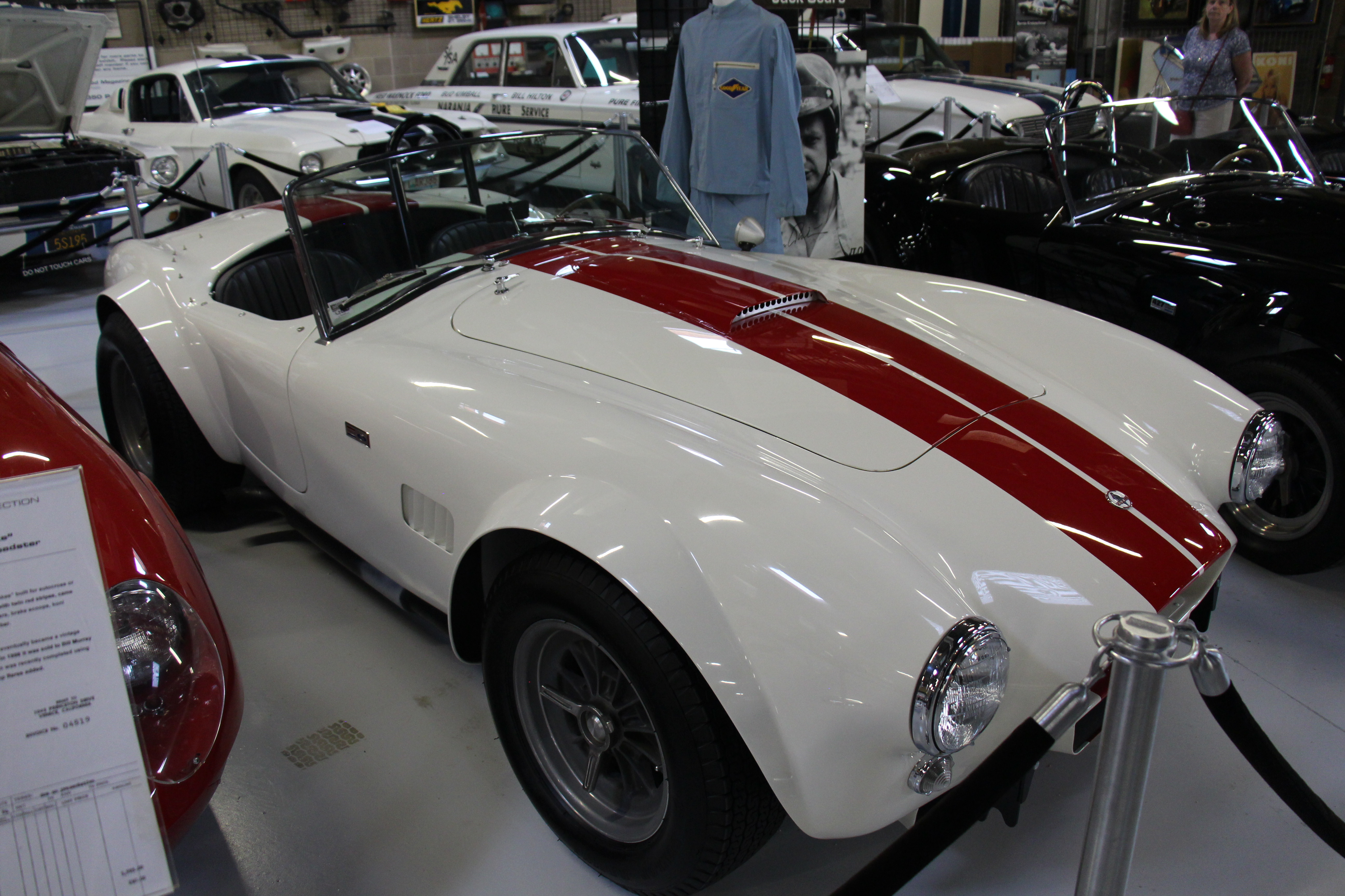 CSX 2537 In 1961 Carroll Shelby in America entered into negotiations with English car company, AC Cars. Backed by Ford, Shelby proposed the installation of an American Ford V8 in the AC Ace, the fusion of brute American horsepower and British aesthetics resulted in the AC Cobra, one of the fastest and most brutal sports car of all times. The 1962 Mk I Shelby Cobra, first 75 cars got the Ford Windsor 260 cu in V8, the remaining 51, the 289 The 1963-65 Mk II got rack and pinion steering all 289 cu in,(528 made) Mk I and Mk II CSX 2000- 2602 The 1965-67 Mk III got a new chassis, coil suspension all round, wider fenders, wider radiator opening and the legendary 427 cu in V8 (300 made). 27 slab sided 289 Mk IIIs were also built. Only two of these factory built Slalom Snake Cobras were built in 1964, built for Autocross or high performance street driving. Both cars were painted white with twin red stripes, came with 5 spoke American magnesium wheels, front and rear sway bars, brake scoops, koni shocks, hood scoop and roll bar. Photographed at the Shelby American Collection, Boulder